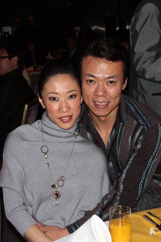 Shen Xue and Zhao Hongbo at the 2009-2010 Grand Prix of Figure Skating Final.